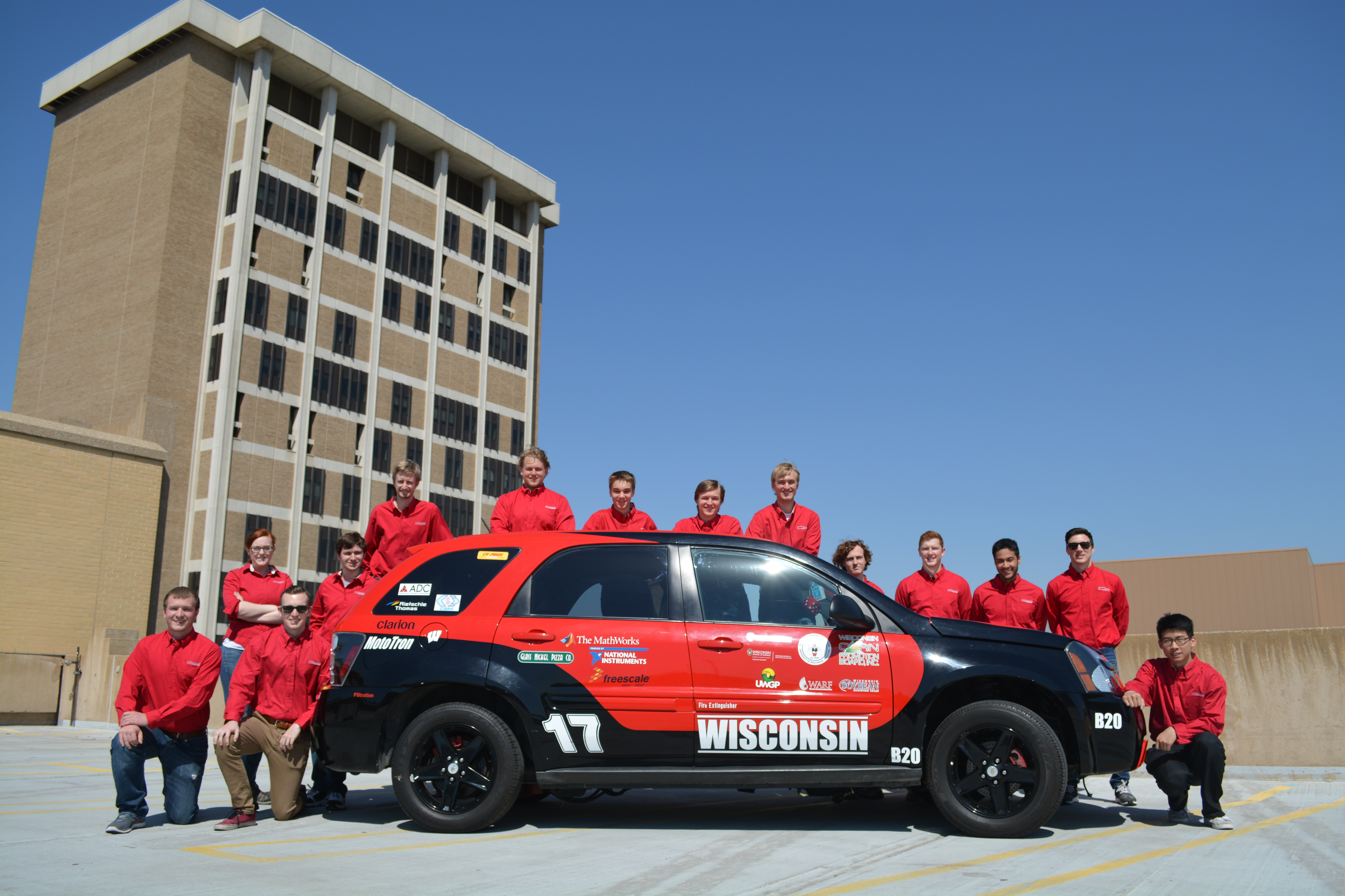 This is a team photograph of the Hybrid Vehicle Team at the University of Wisconsin, taken in the Spring semester of 2016.